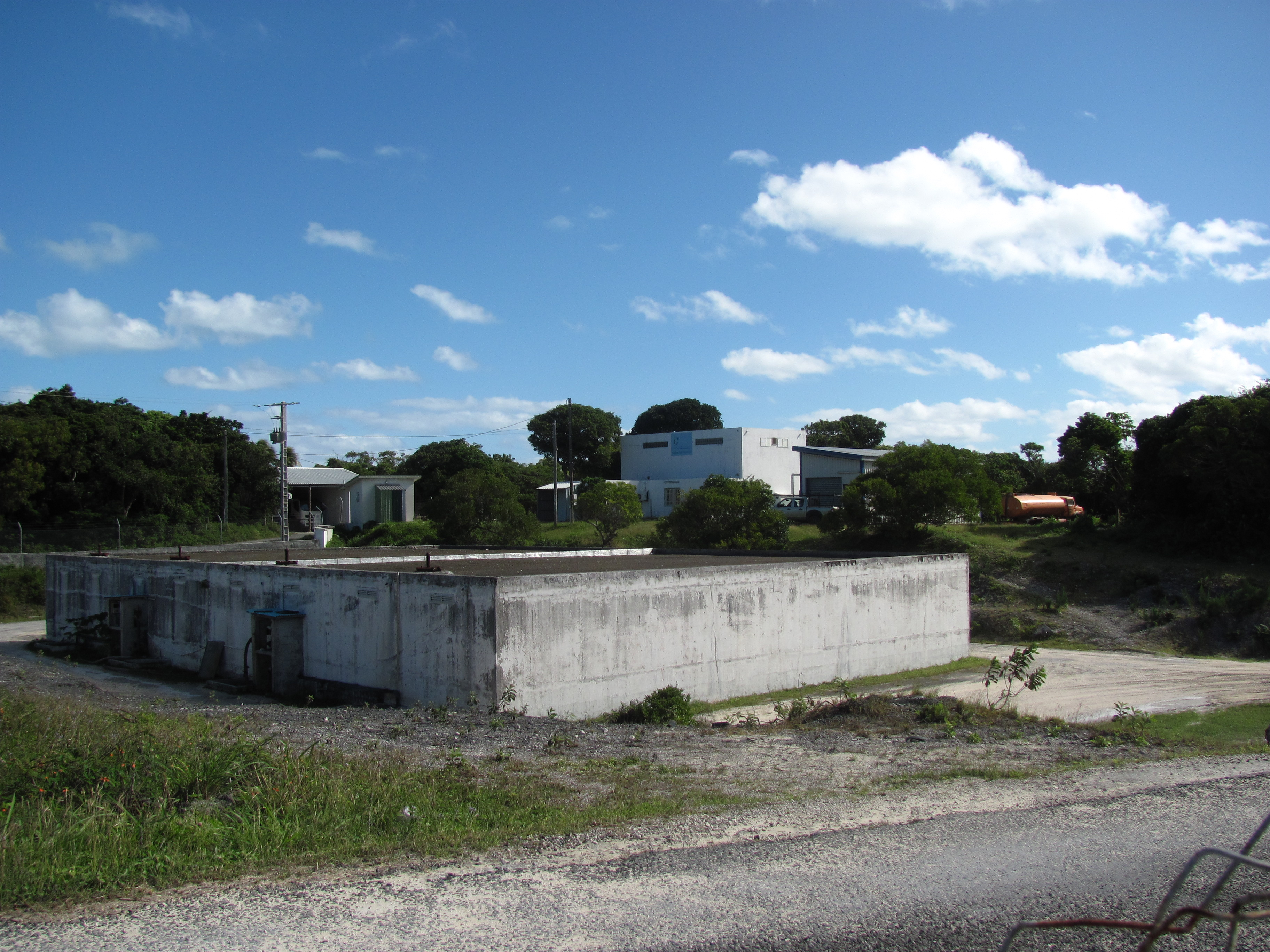 Desalination Plant, Wadrilla, Ouvéa, New Caledonia